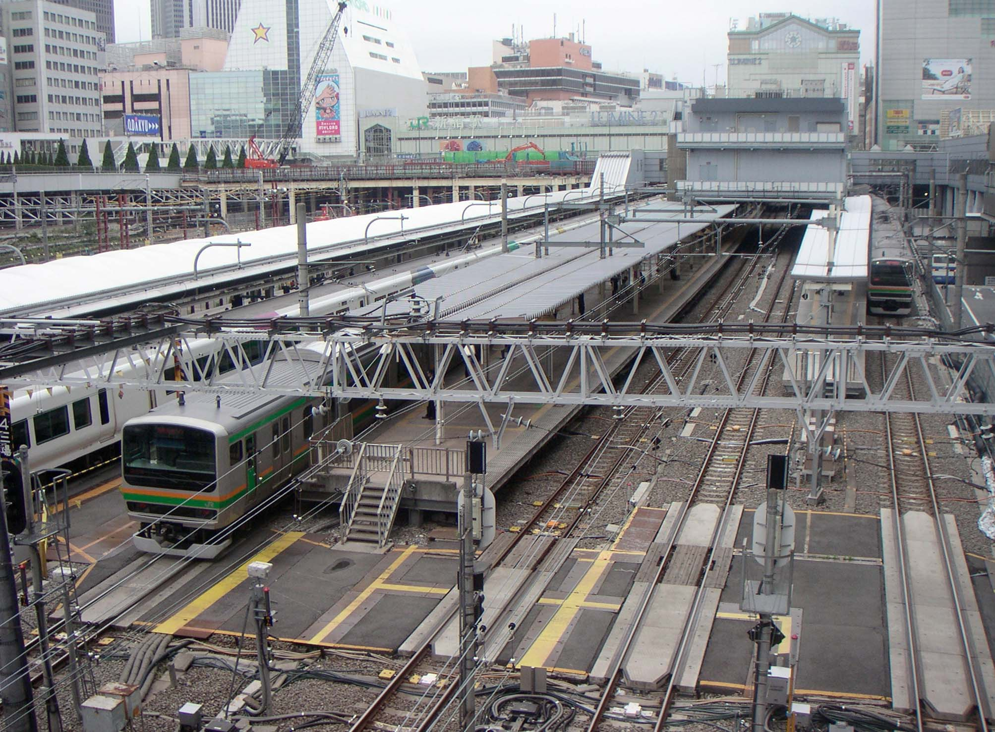 Shinjuku Station Platforms 1-5 for Shonan-Shinjuku Line trains